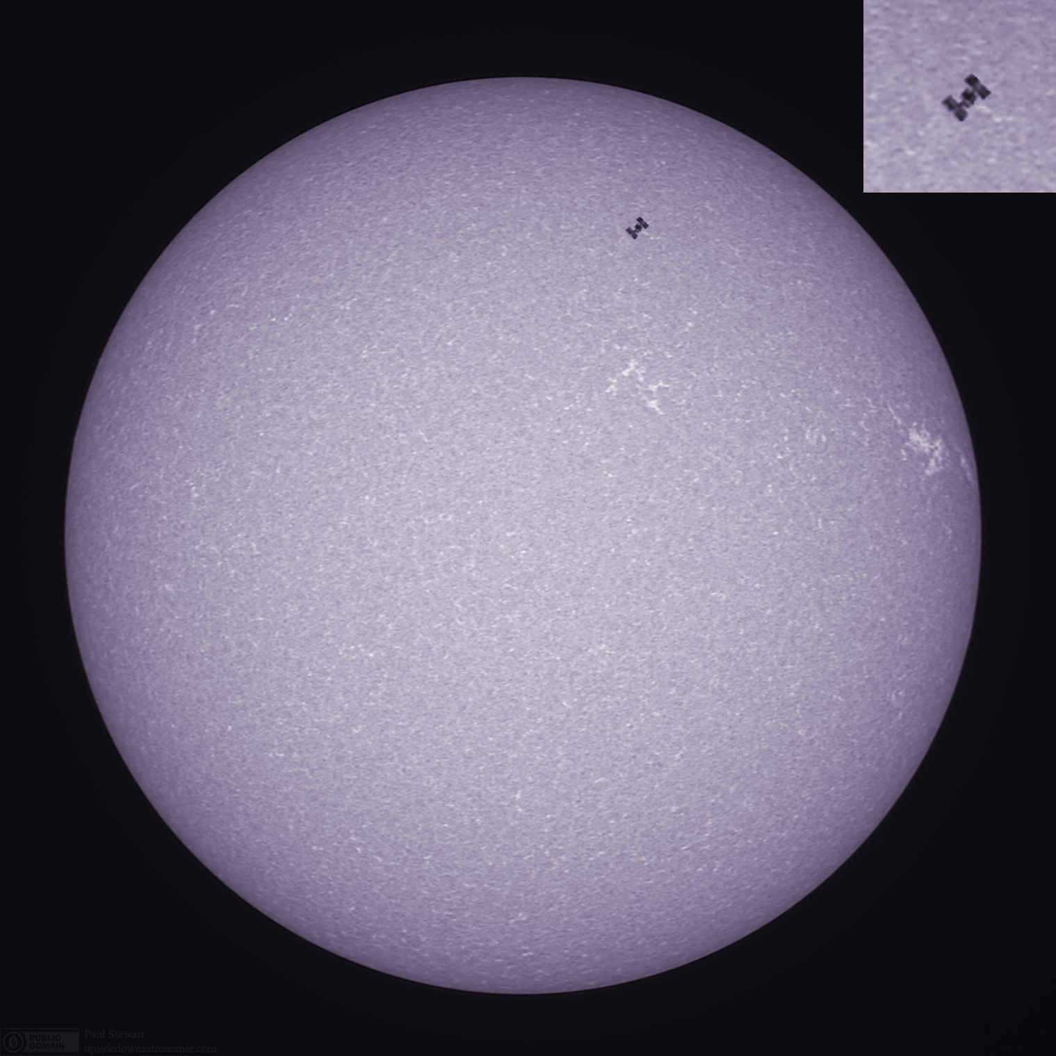 I thought I was going to miss this but the clouds miraculously parted at the right time. The ISS traveling at 7.7km/s only took 400ms to travel across the edge of the Sun. Captured with a Lunt Calcium K filter at a wavelength of 393 nm, this is an emission line of Calcium and shows the lower chromosphere. A 80mm Z80 refractor was the scope used and a Pt Grey Chameleon 3 camera.